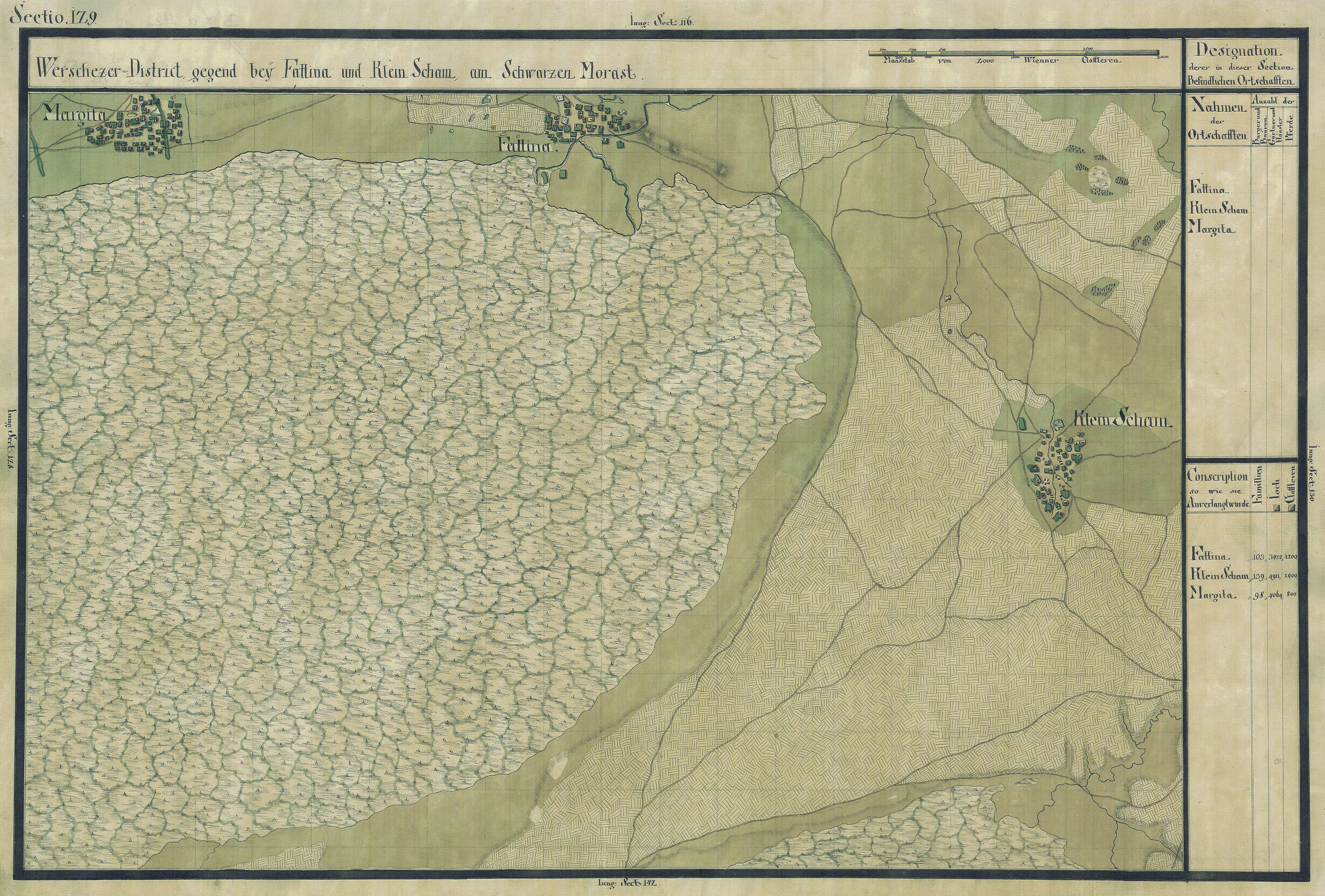 The Banat region in the cadastral maps: Josephinische Landesaufnahme, 1769-72. Josephinische Landaufnahme pg129